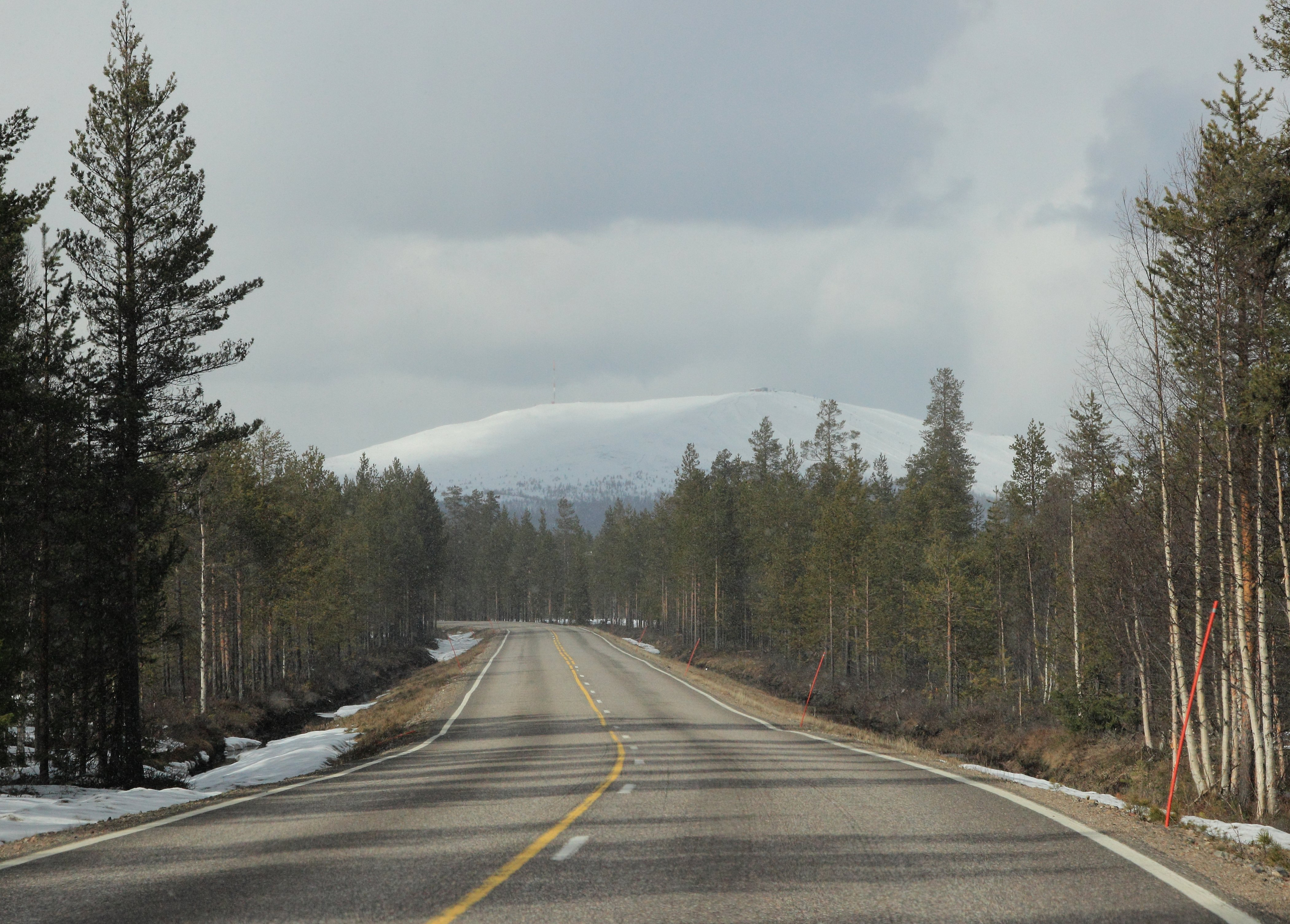 Finnish National Road 80 in Kolari with Yllästunturi in the background.